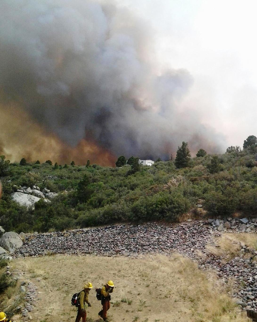 The Yarnell Fire began on Jun. 28, 2013 from a lightning strike and is approximately 1.5 miles from Yarnell, AZ. U.S. Forest Service photo.